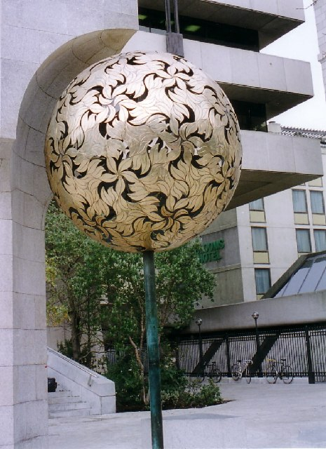 Street Sculpture, Temple Bar, Dublin. At the Central Bank, just off Dame Street.